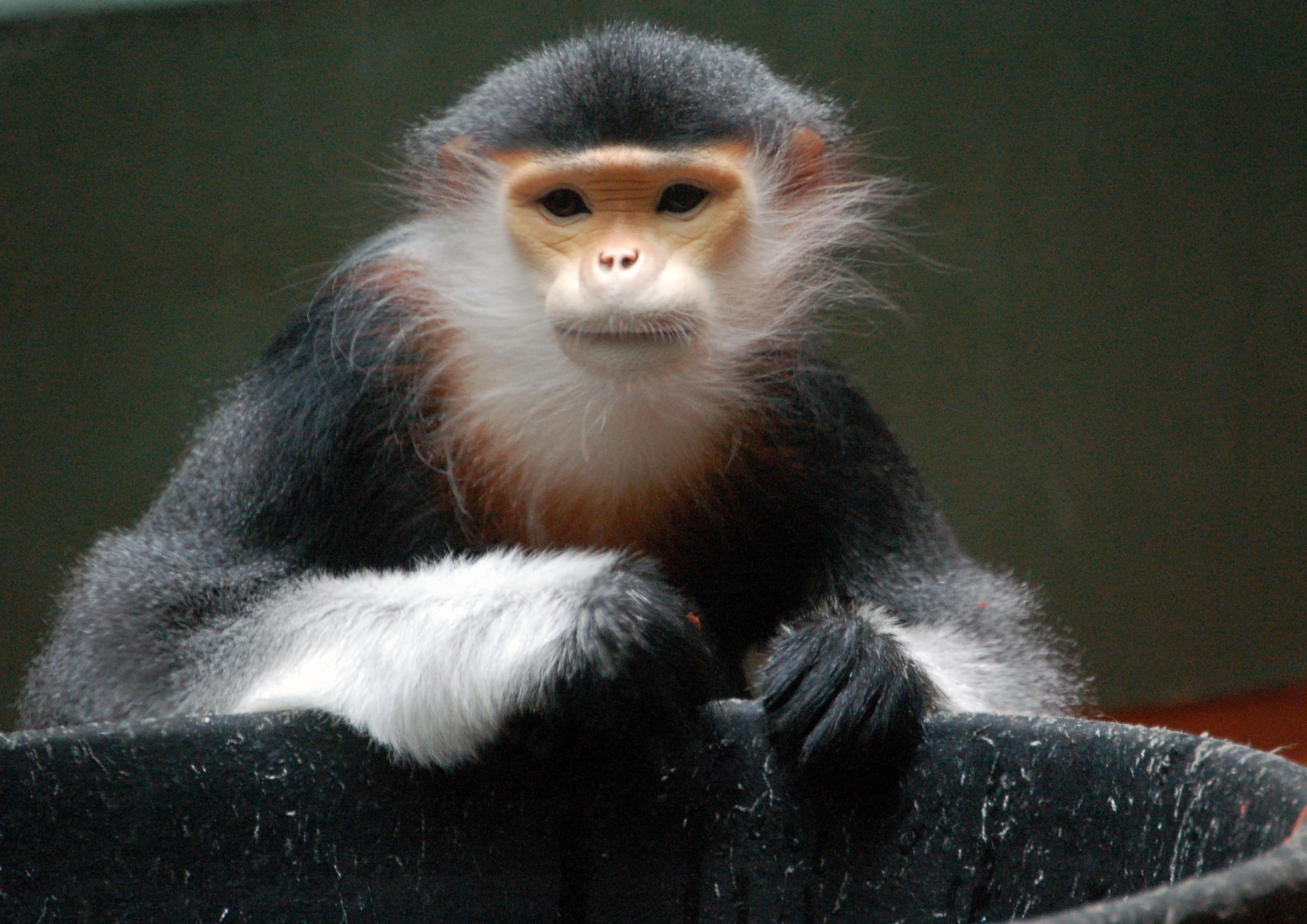 Red-shanked Douc / Pygathrix nemaeus at the Philadelphia Zoo